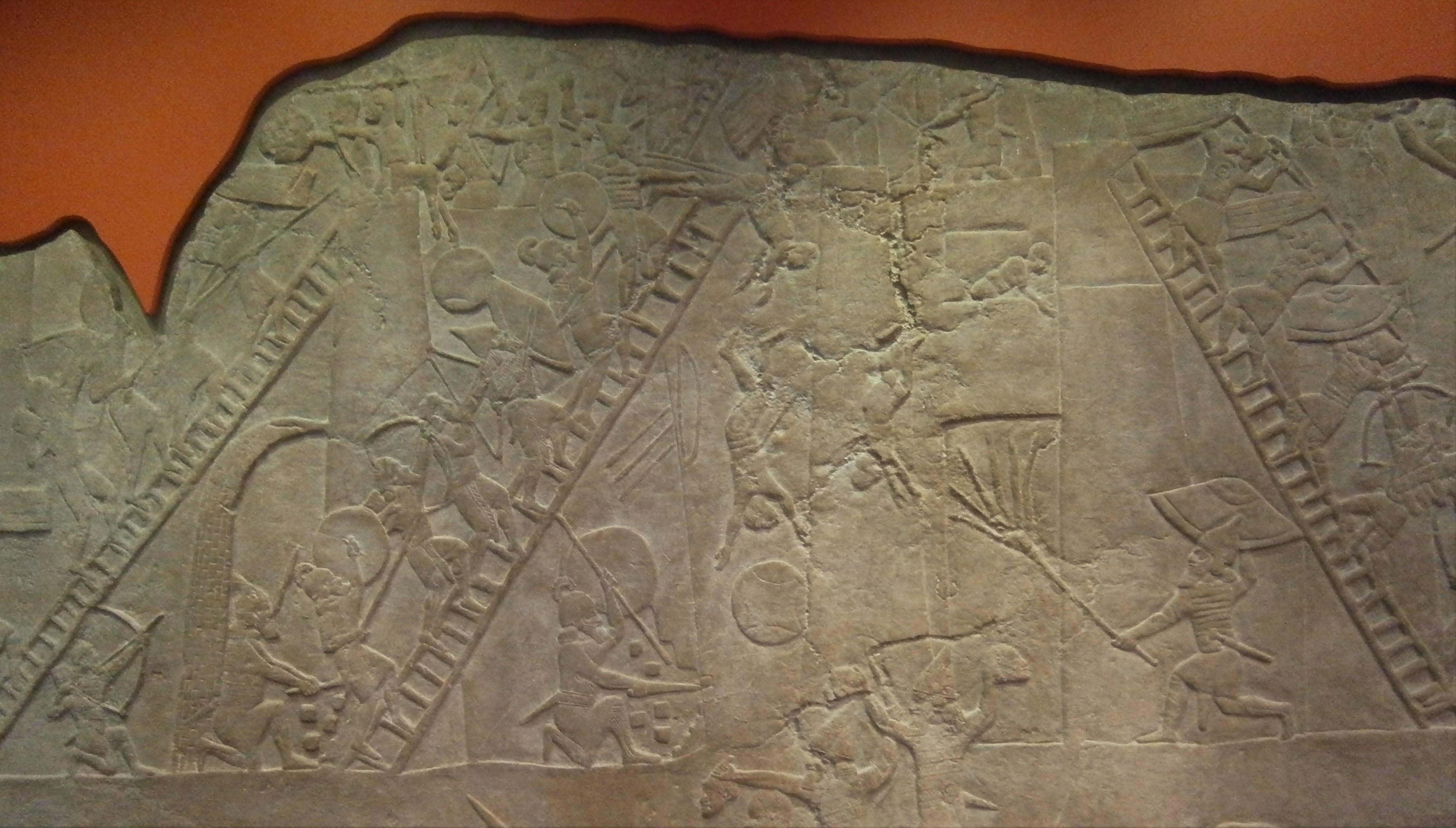 Panel from the North Palace of Nineveh, representing the Assyrian army attacking Memphis, during the campaign of 667 BC, reign of Ashurbanipal. Detail : Assyrian army storming the fortress, trying to set fire to the gate and undermine the walls. C. 645-635 BC. ME 124928.